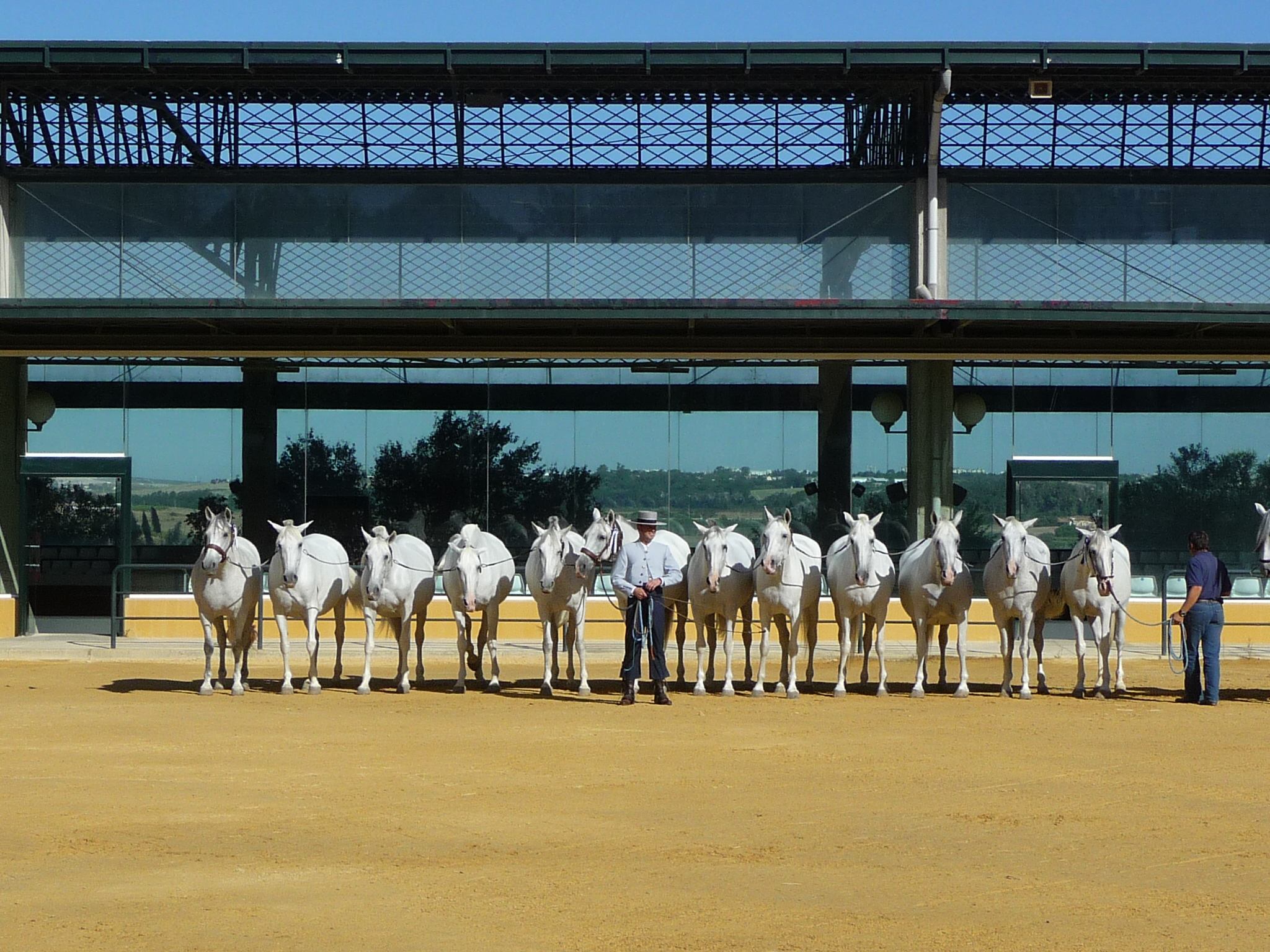 She horses in Yeguada del Hierro del Bocado horse farm